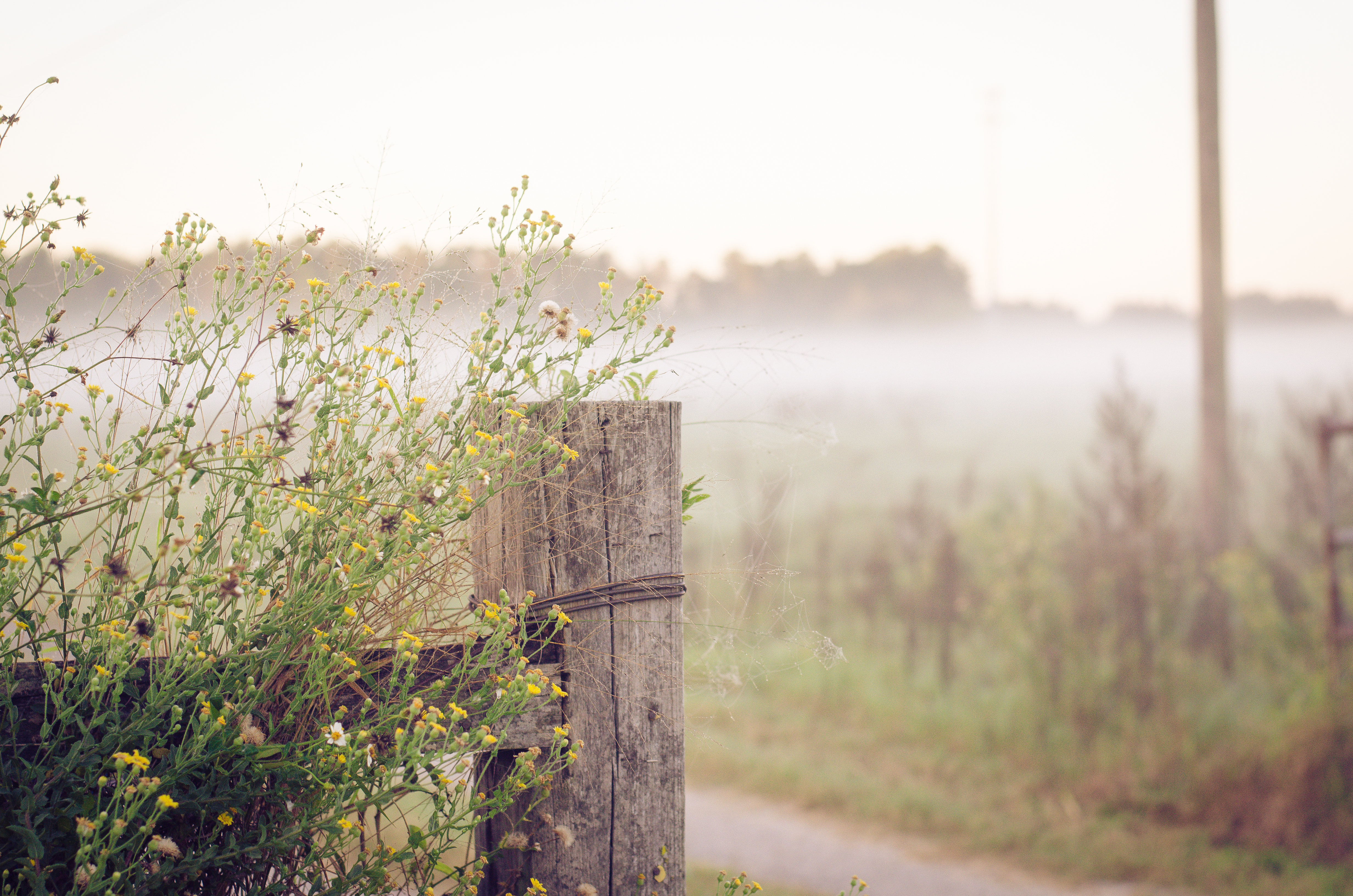 Boy Scout Road, Odessa, United States